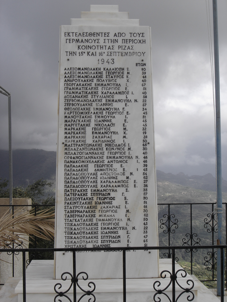 Memorial plaque for people executed by the Nazis in Riza. Lasithi, in 1943.